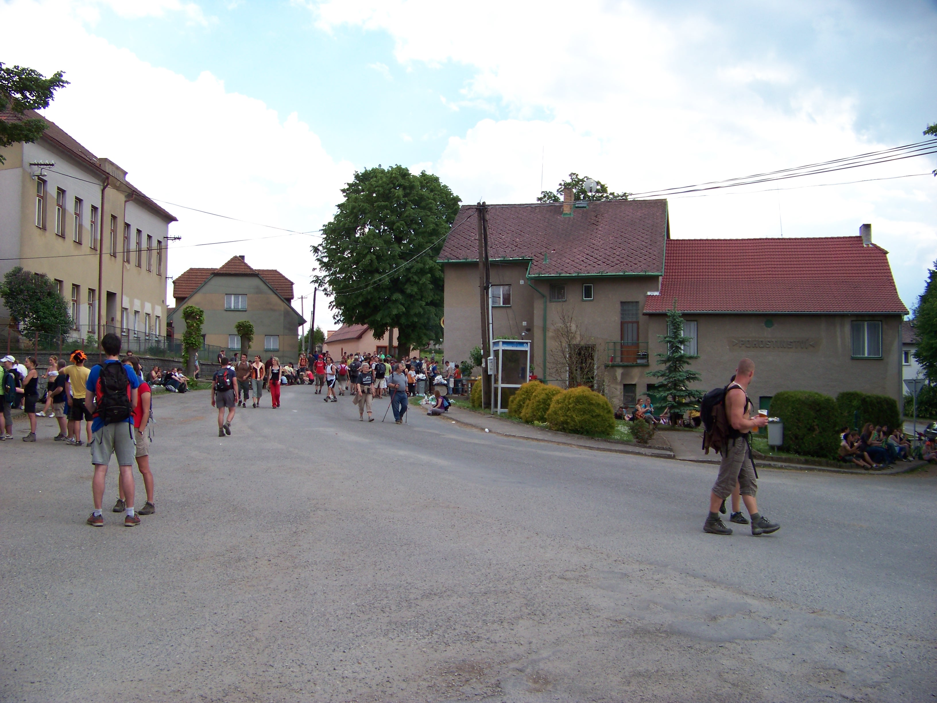 Červený Újezd, Benešov District, Central Bohemian Region, the Czech Republic.